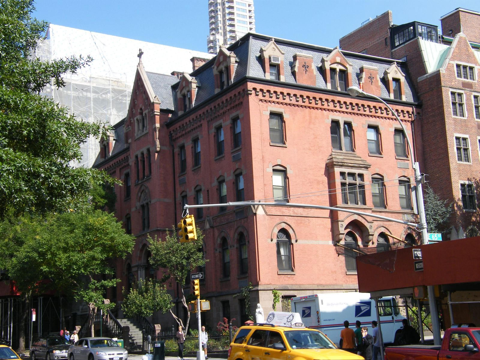 Looking north across Lex and 65th Street at St. Vincent priory. Main building is in background left under netting.